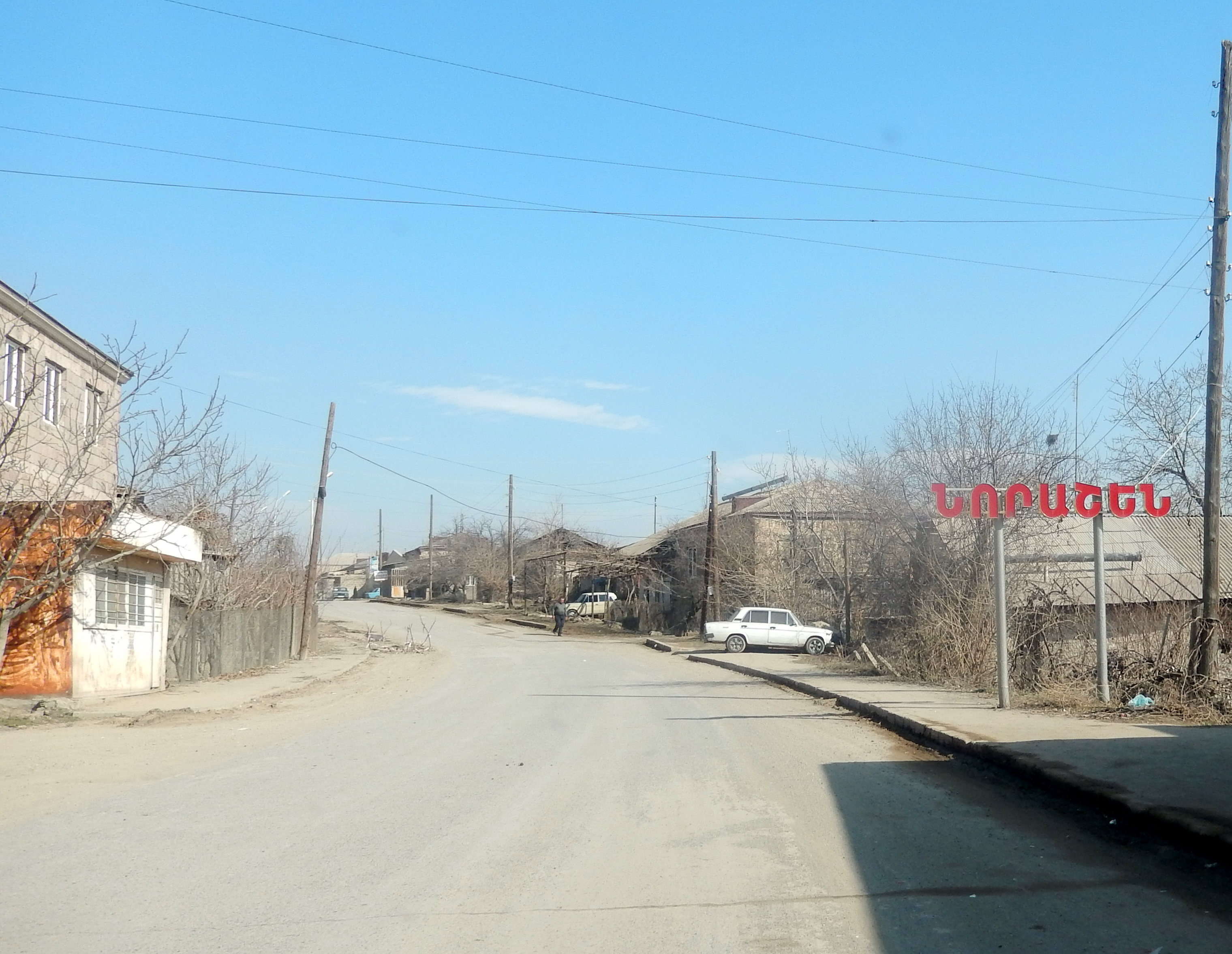 Norashen, Ararat Region